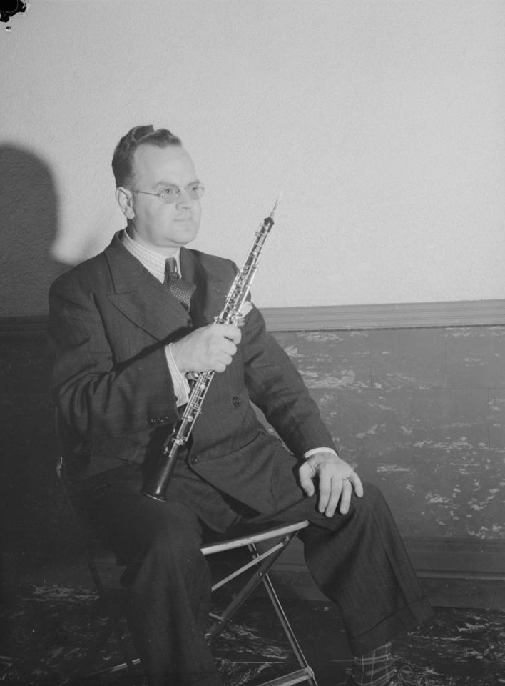 Réal Gagnier holds his oboe.